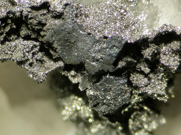 Lautite, Löllingite Locality: Glasberg quarry, Nieder-Beerbach, Nieder-Ramstadt, Odenwald, Hesse, Germany (Locality at ) Dark grey metallic Lautite (analysed) together with white metallic Löllingite. Field of view 8 mm. Specimen and photo Leon Hupperichs.